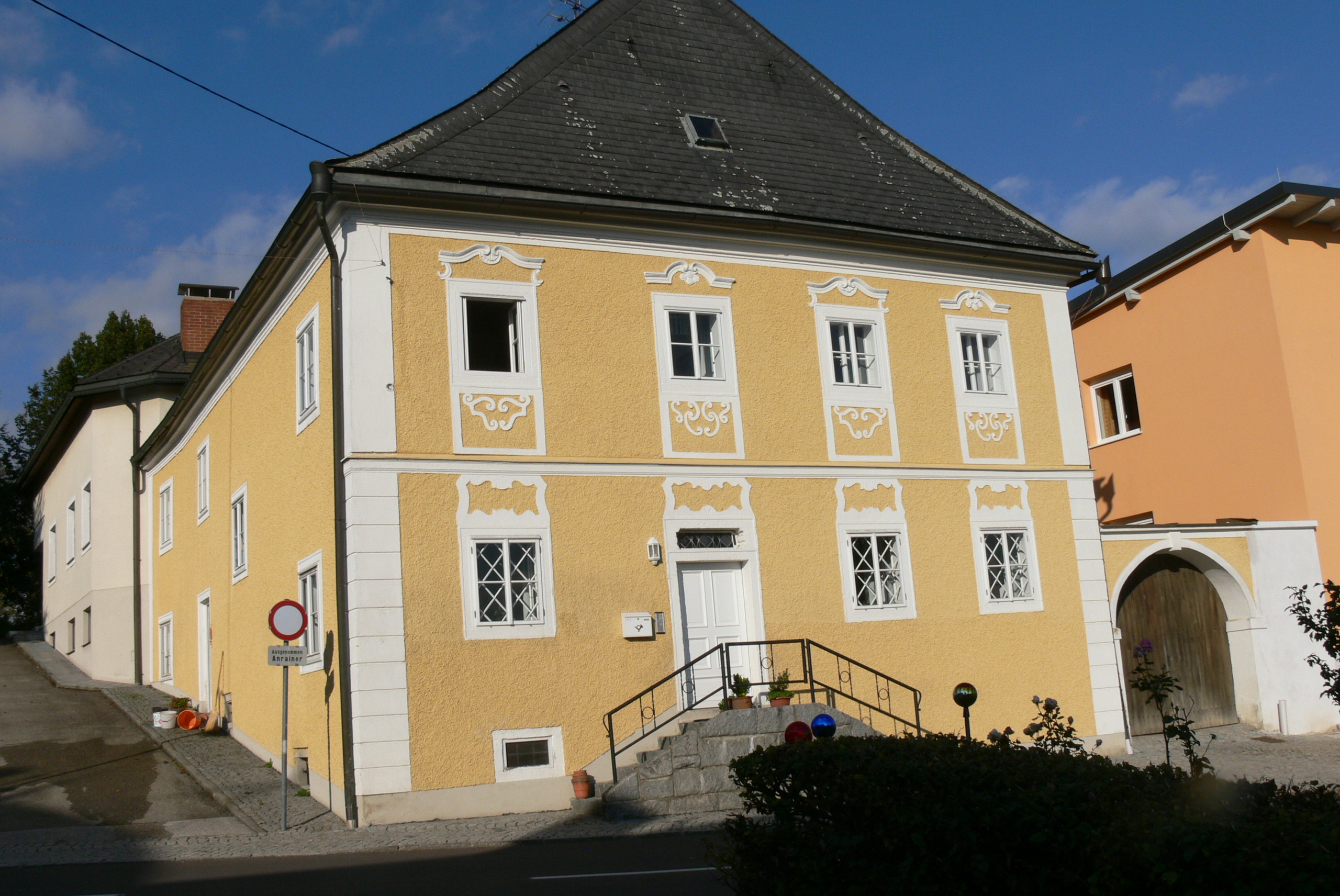 Niederkappel ( Upper Austria ). Rectory ( 1633 ).